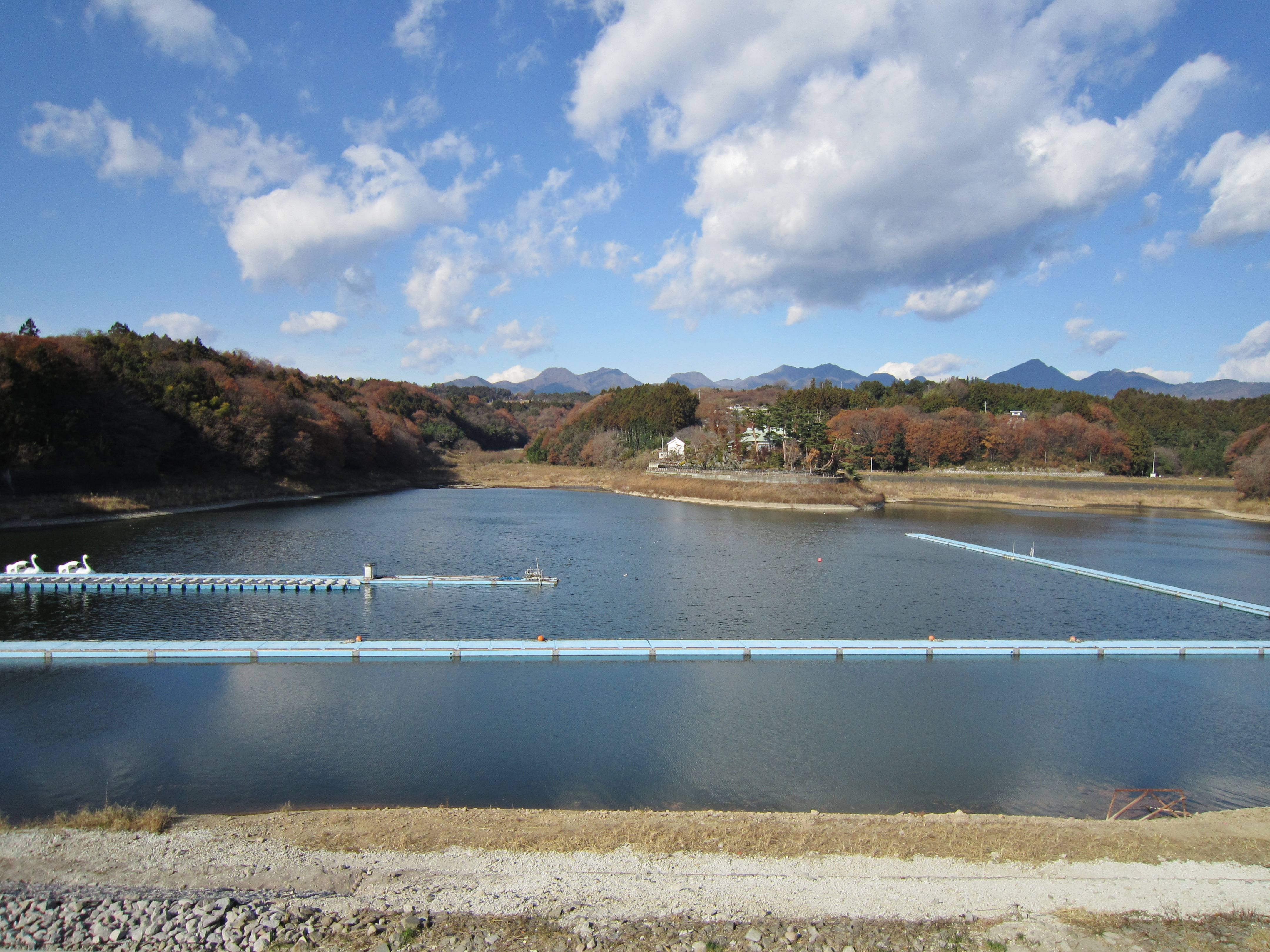 Narusawa Dam lake.